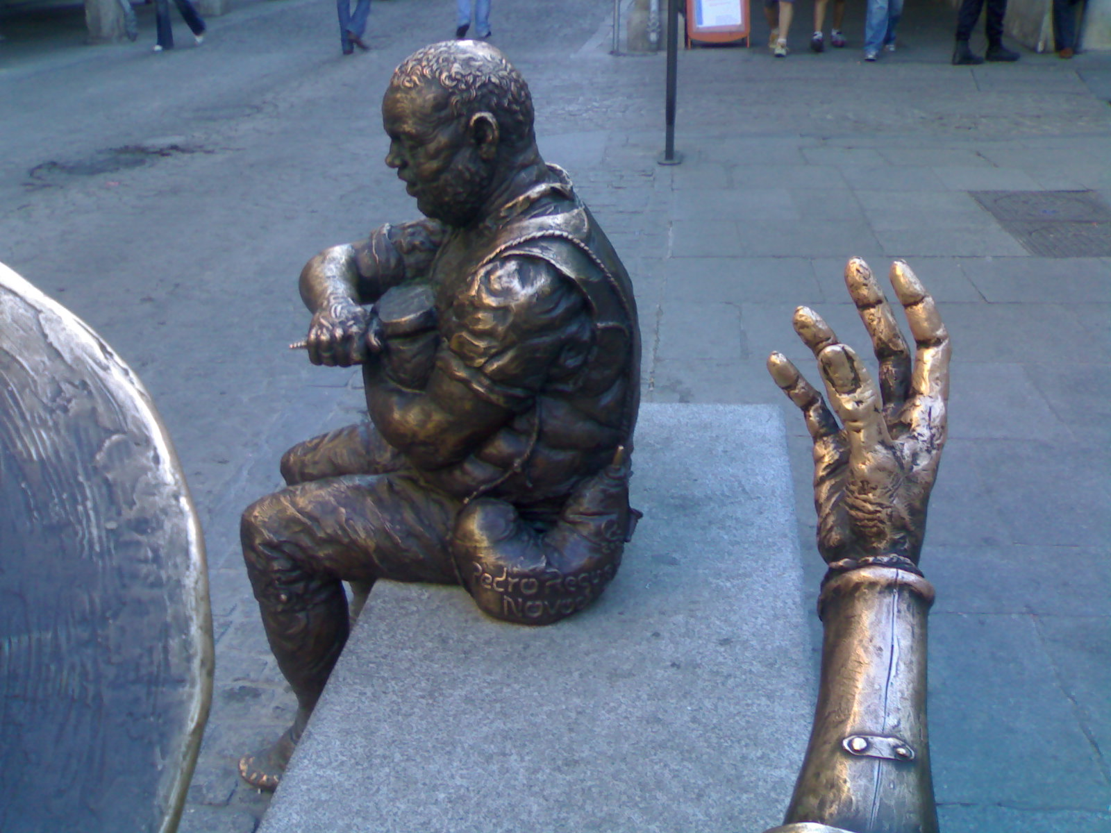 Sancho Panza listening to Don Quixote.